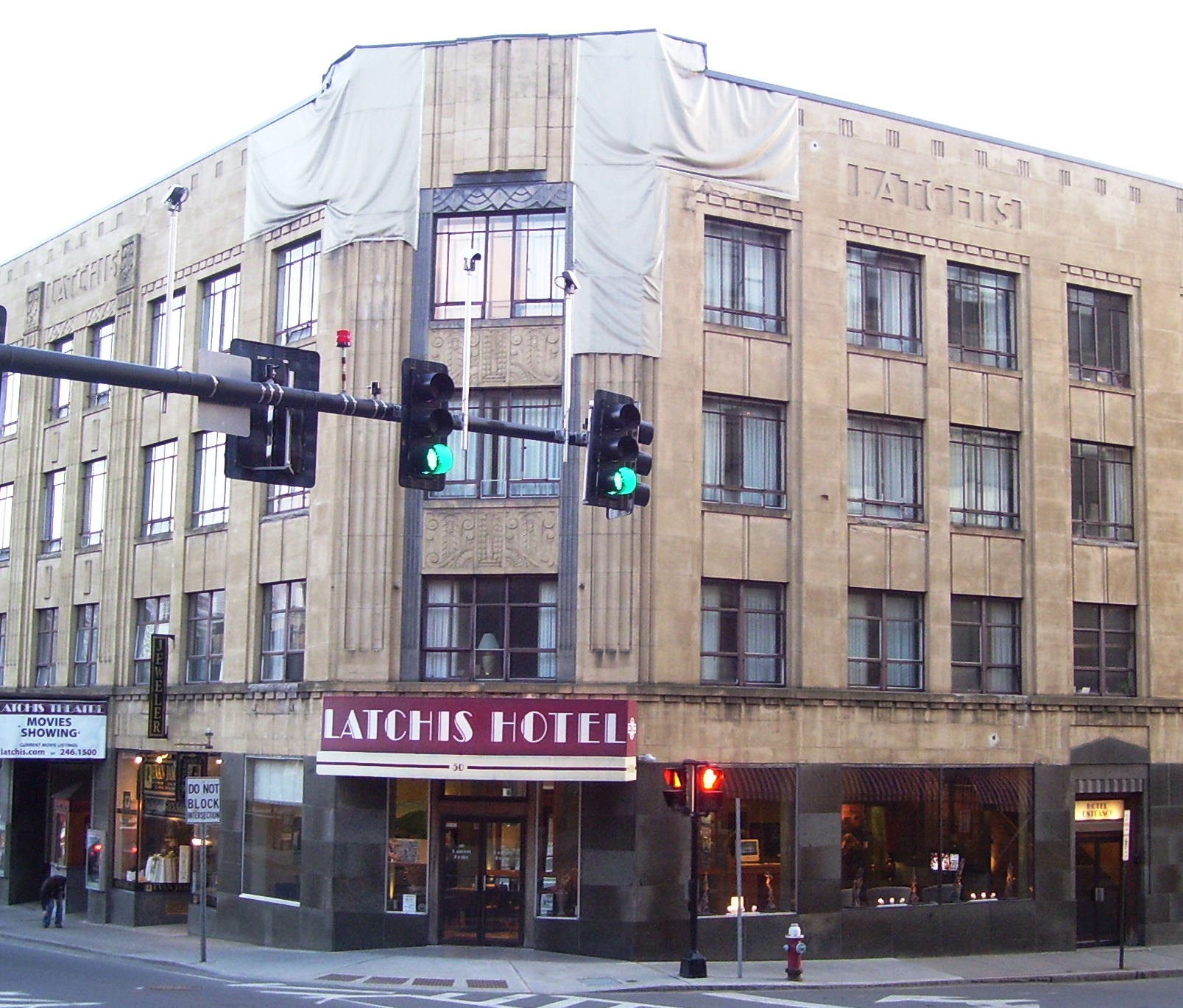 The Latchis Hotel and Theatre on Main Street at Flat Street in Brattleboro, Vermont, was built in 1938 in the Art Deco style by the Latchis family to honor Demetrius P. Latchis; it was originally called the Latchis Memorial Building. The hotel originally had 60 rooms, a ballroom, a 1200 seat movie theatre, a coffee shop, dining room and gift shop. In 2003, the building was purchased by the Brattleboro Arts Initiative with the Preservation Trust of Vermont, with the intention of creating an arts center for downtown Brattleboro. The building now includes a 30-room boutique hotel, a 750-seat movie theatre, two additional screens, and retail space; further renovations are planned. The bulding is located within the Brattleboro Downtown Historic District. (Sources: "The Visitor's Guide and Map to Brattleboro and the Vibrant Villages of Southern Vermont" (2010) and the Latchis Hotel website)